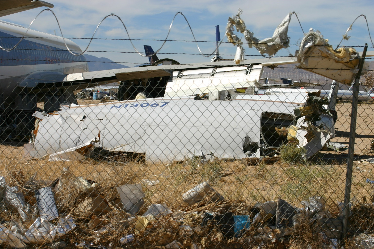 At Mojave